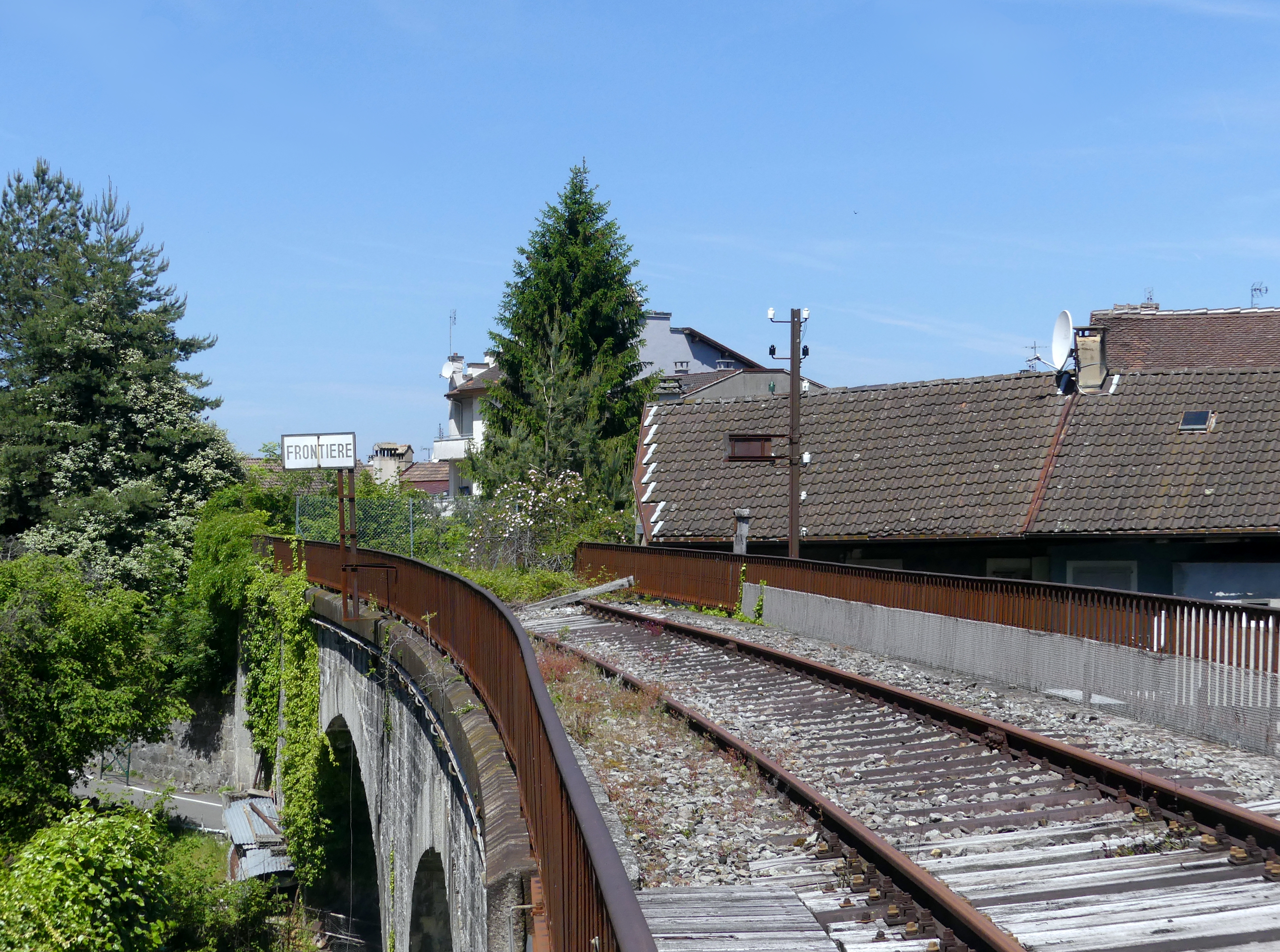 Sight of the railway border bridge over the Morge river, separating France (ahead) and Switzerland at Saint-Gingolph.